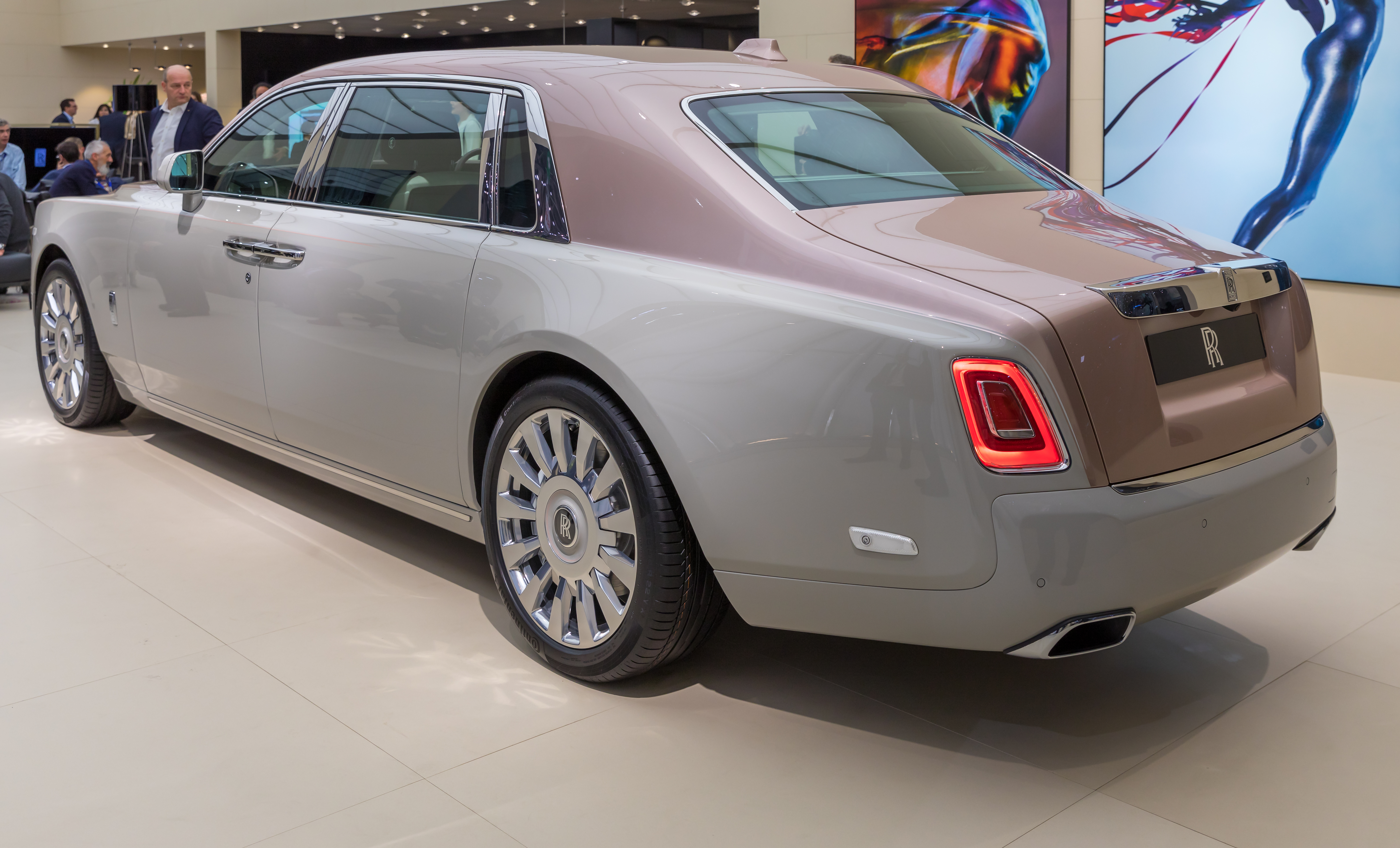 Rolls-Royce Phantom VIII EWB at Geneva International Motor Show 2018